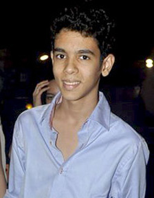 Actor Tanay Chheda at the 10th anniversary celebrations of Aamir Khan Productions